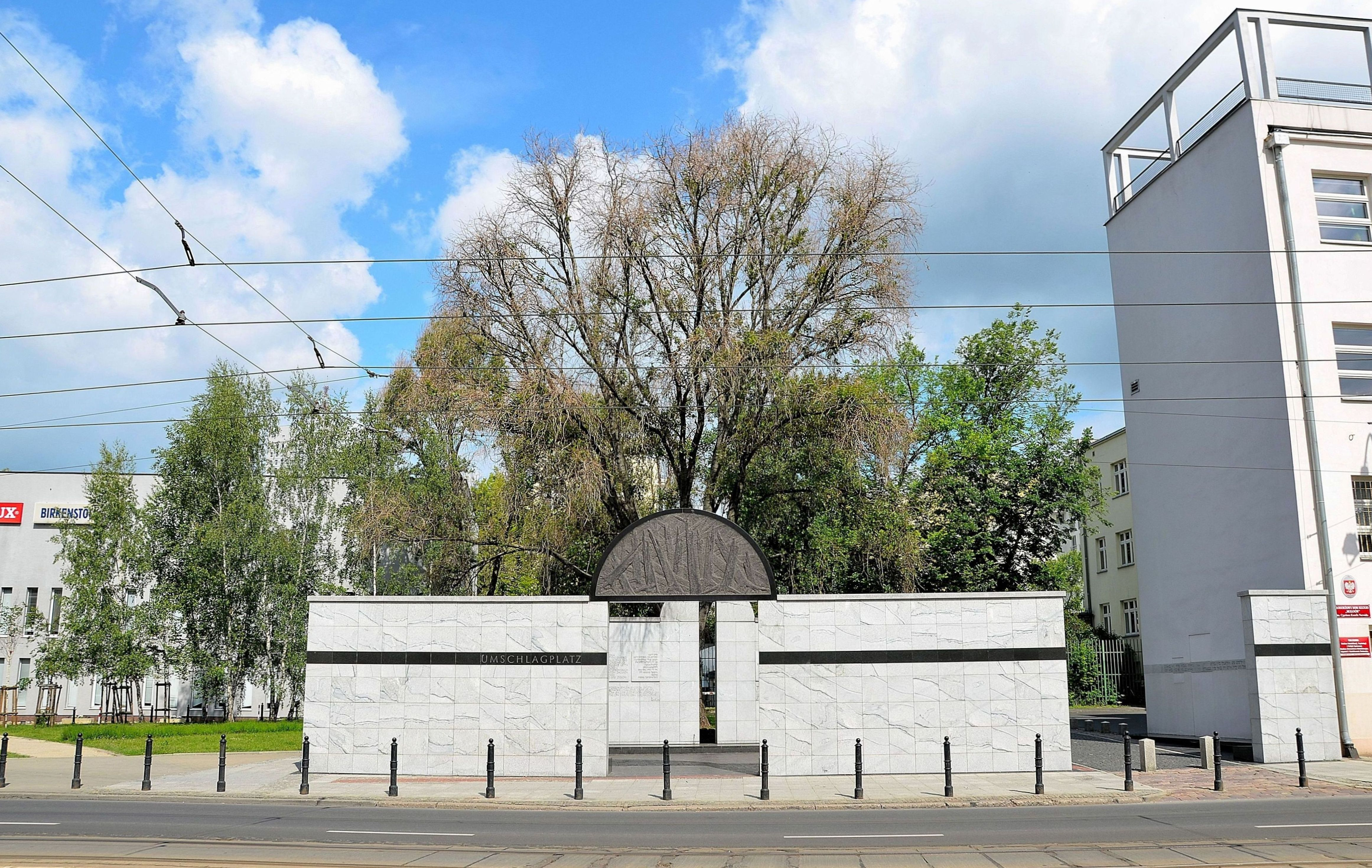 Umschlagplatz Monument in Warsaw